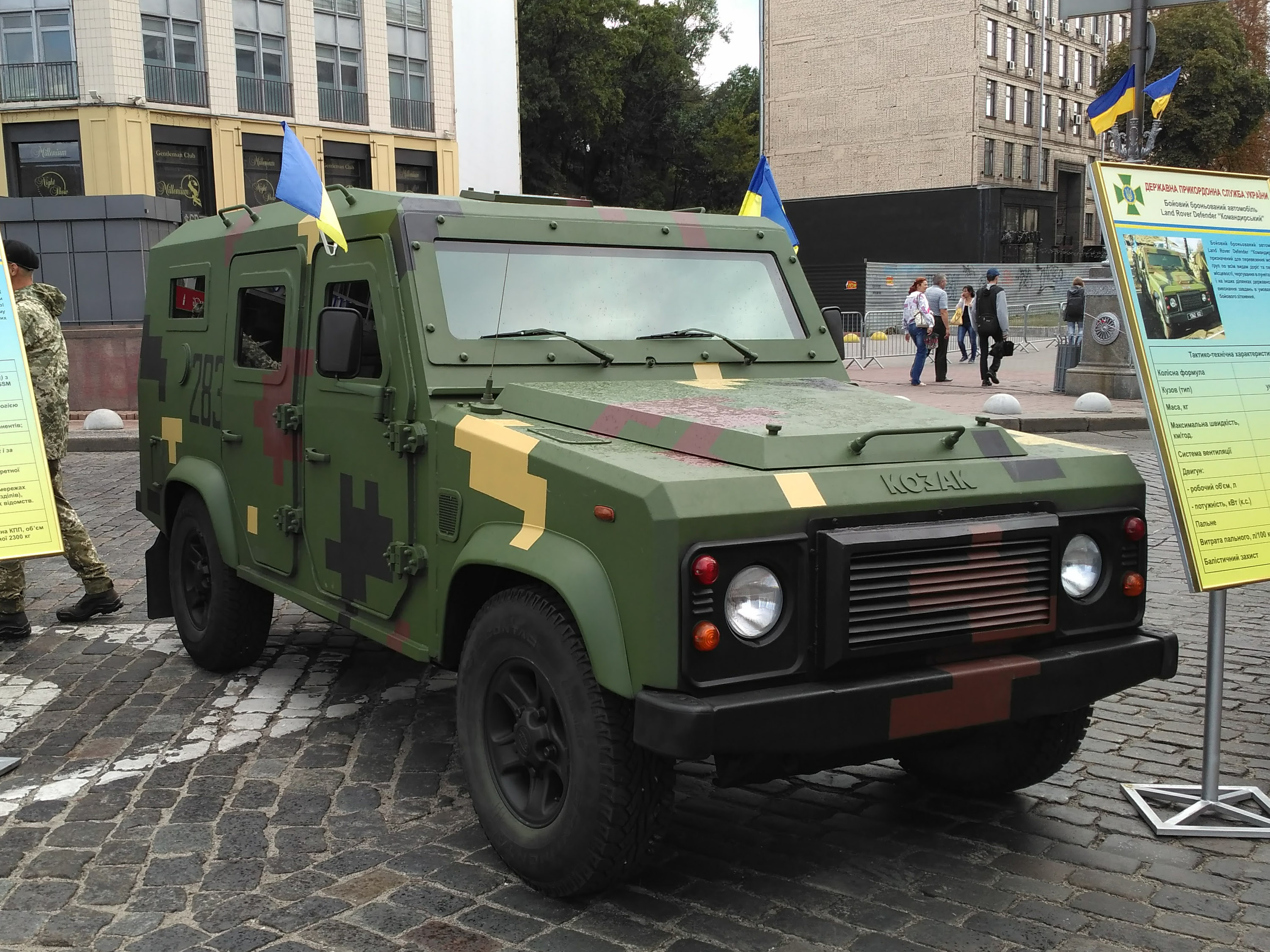 BBM Kozak-4 vehicle, Kyiv 2017